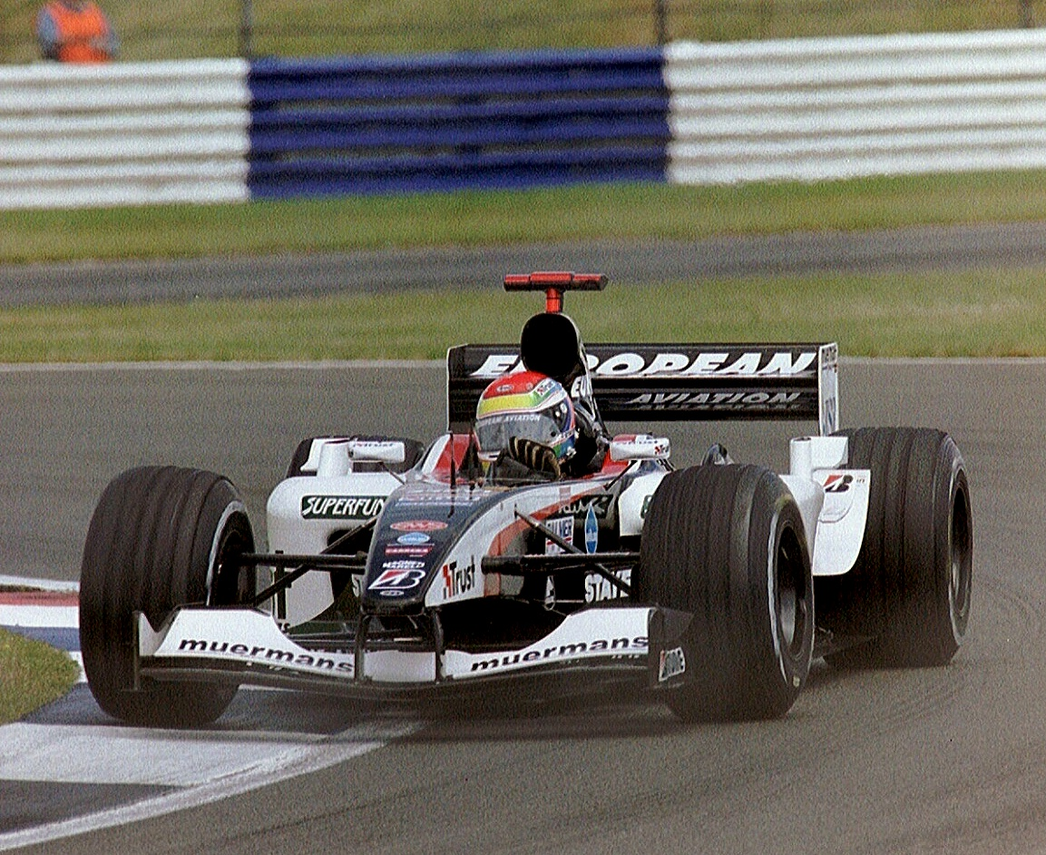 Justin Wilson, driving his European Minardi Cosworth at the 2003 British Grand Prix.